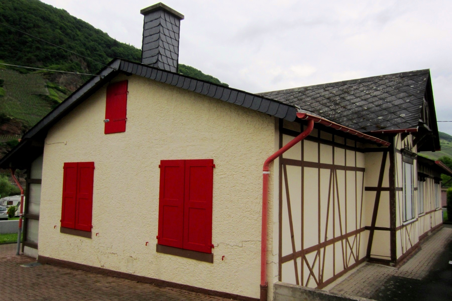 Keywords: MB; rail; german railways; secundary railways; Moselbahn; station; Erden